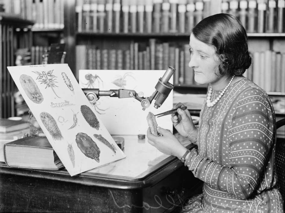 Joyce Allan arranging mollusks for the Australian Museum, New South Wales, 9 March 1933